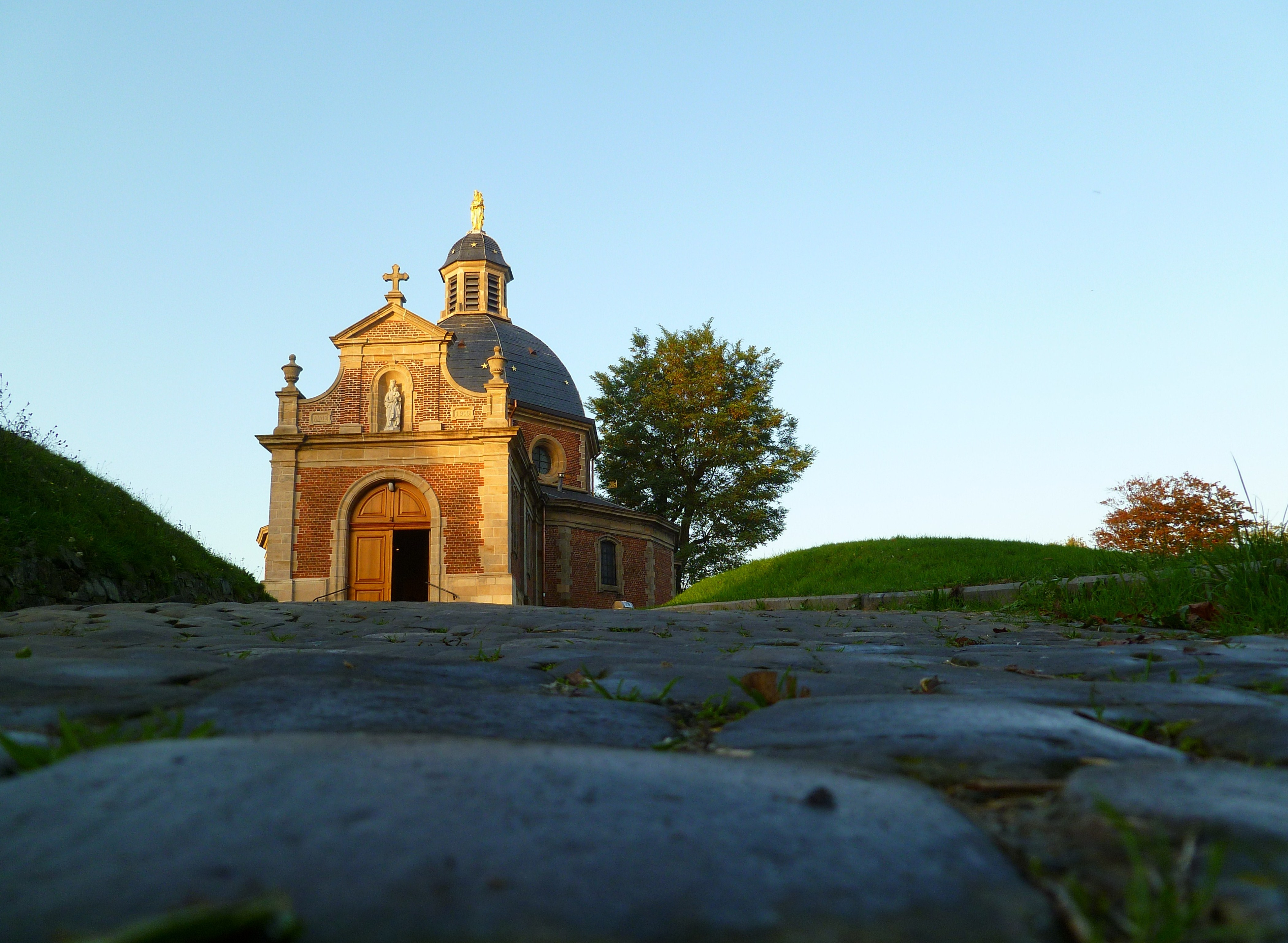 the Wall of Geraardsbergen or Grammont, famous for being in the Tour of Flanders. This picture shows the famous Sett-stones, the monument shown is the chapel. A sports and a building monument combined.